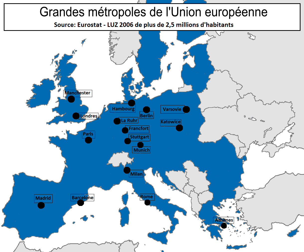 Map of European metropolis